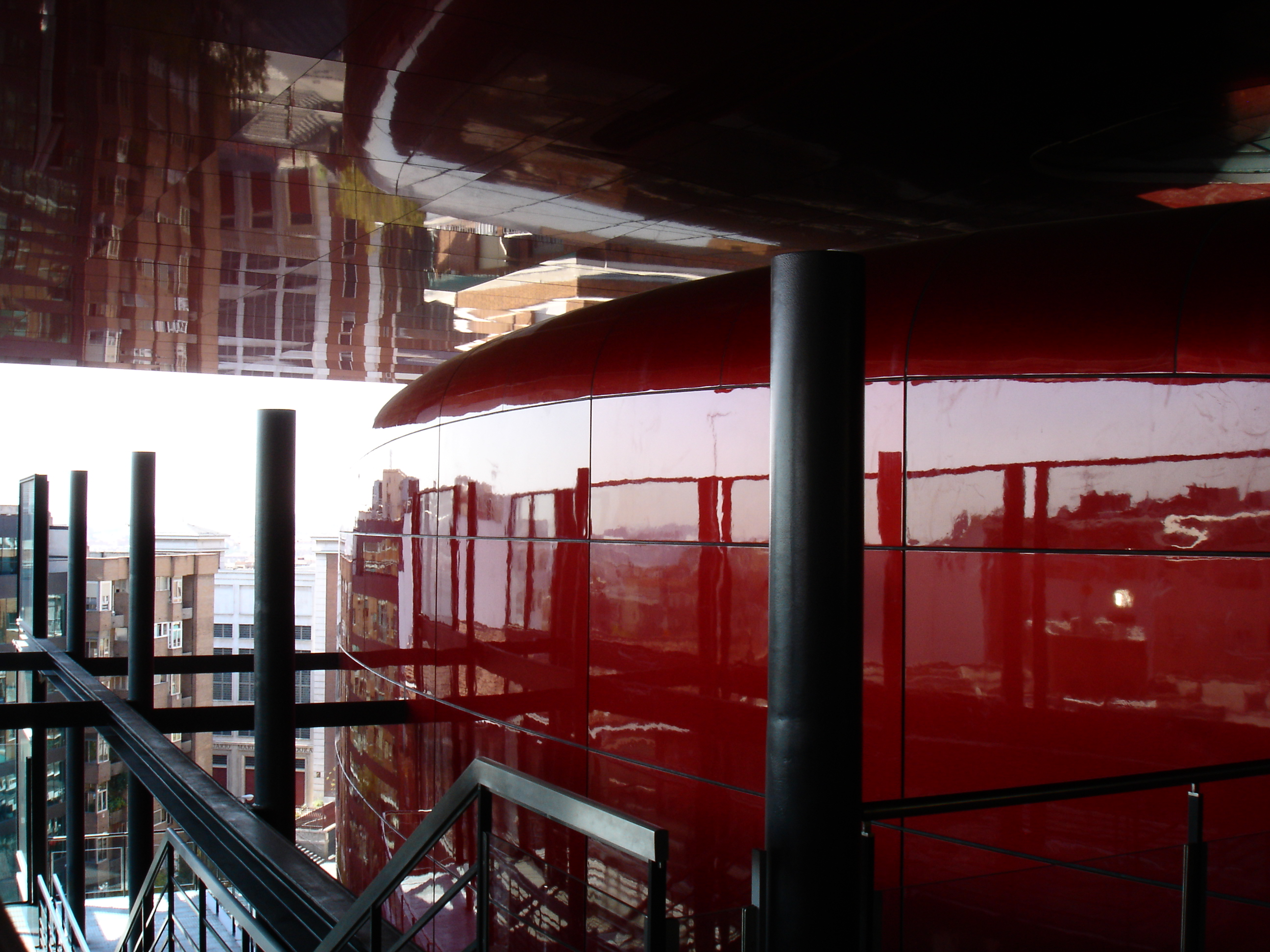 Extension of Queen Sofia Museum (MNCARS) in Madrid (Spain). Projected by architect Jean Nouvel (born 1945) and built from 2002 to 2005.